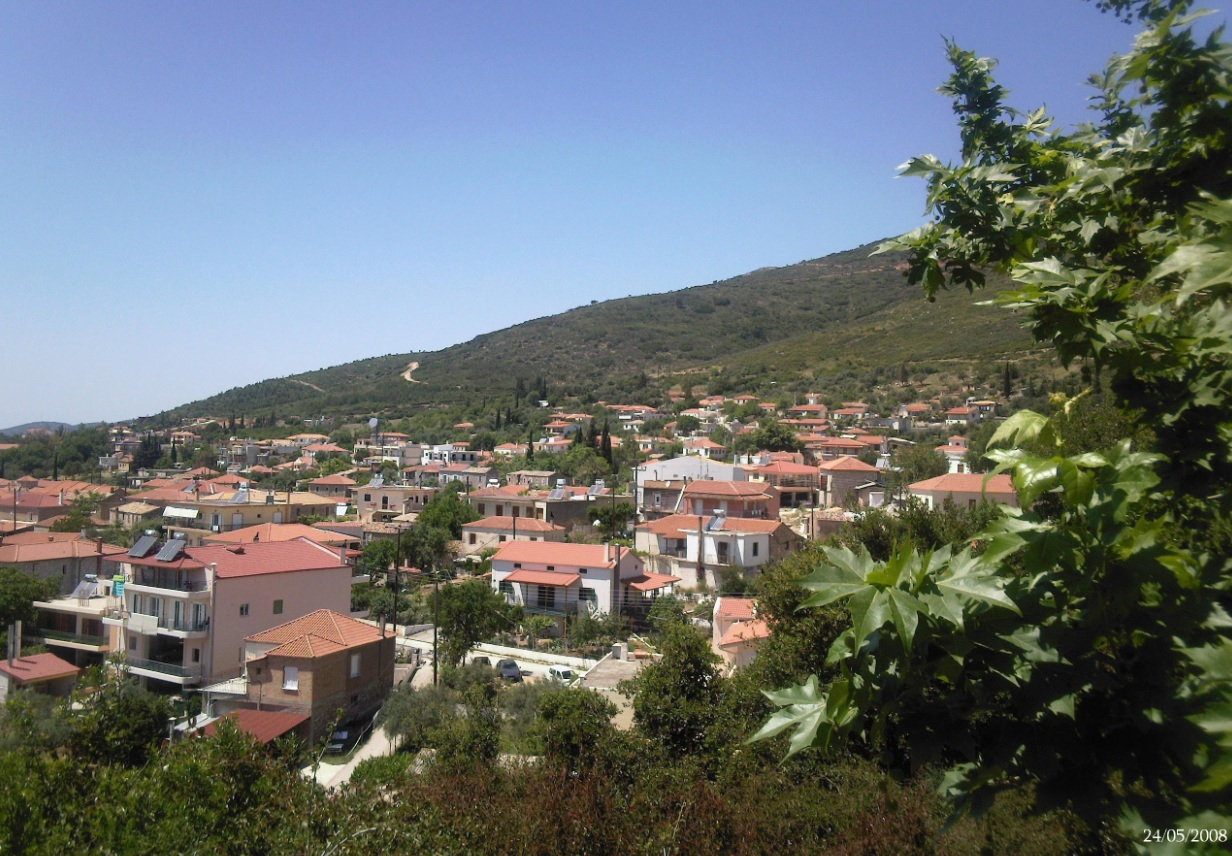 Spring view of Chalandritsa, Achaia, Greece.